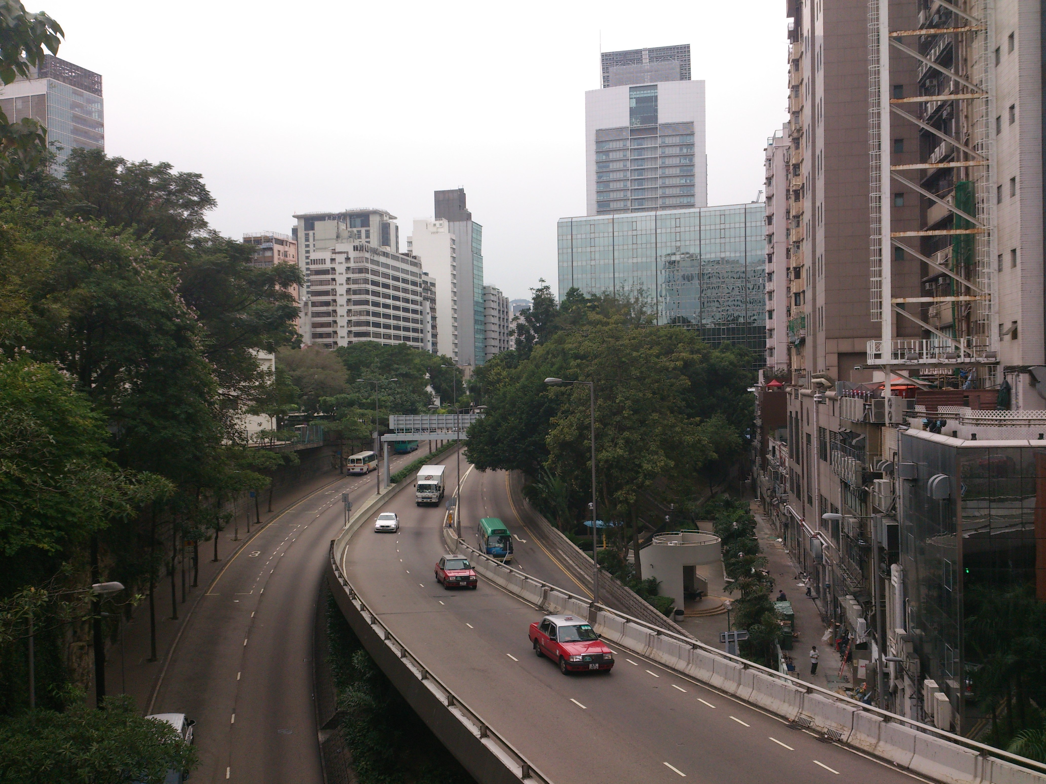 Kowloon Park Drive near Hong Kong Heritage Discovery Centre